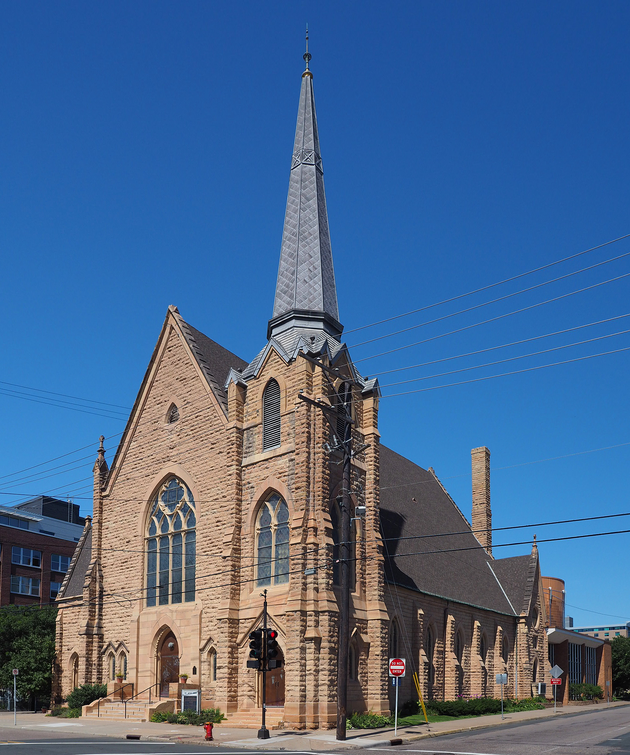 First Baptist Church of Saint Paul, 499 Wacouta St, St Paul, Minnesota, USA. Viewed from the east.